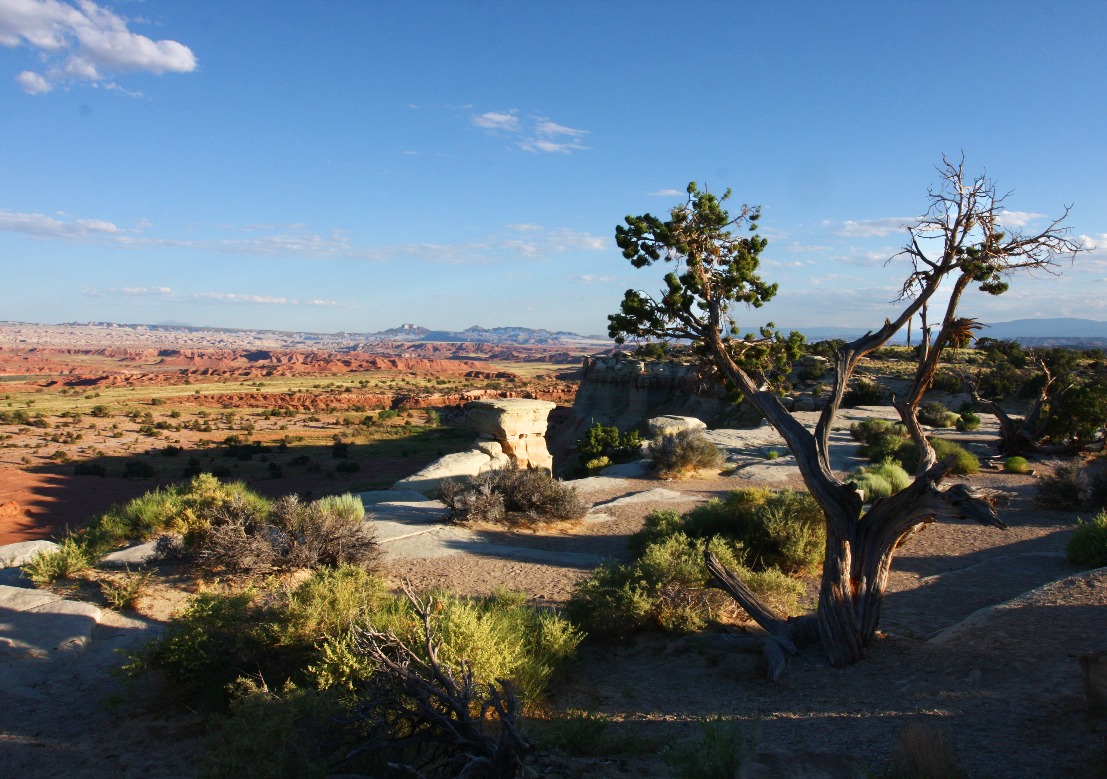 View from a mesa-top, Castle Valley